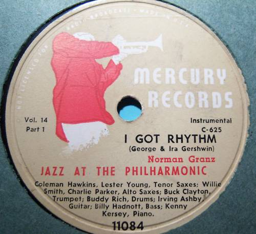 Coleman Hawkins / Lester Young / Charlie Parker: I Got Rhythm JATP